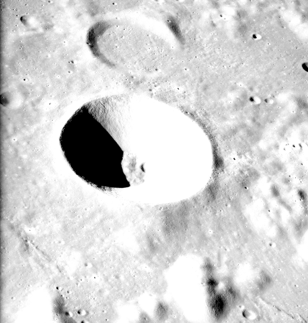 Oblique view of Darney crater, facing south. Taken by Apollo 16 panoramic camera.